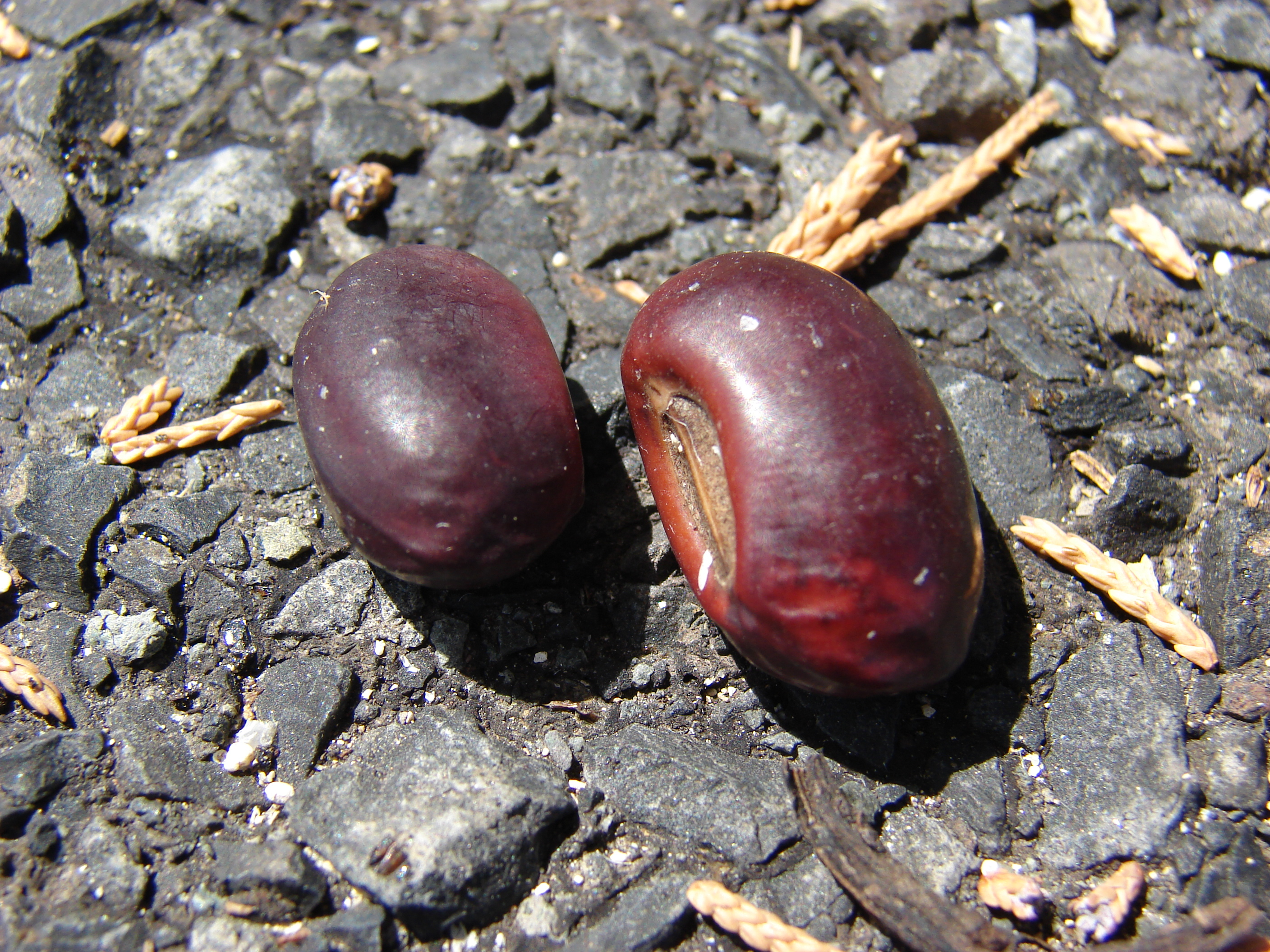 Erythrina variegata (seeds). Location: Midway Atoll, Road to Marine barracks Sand Island